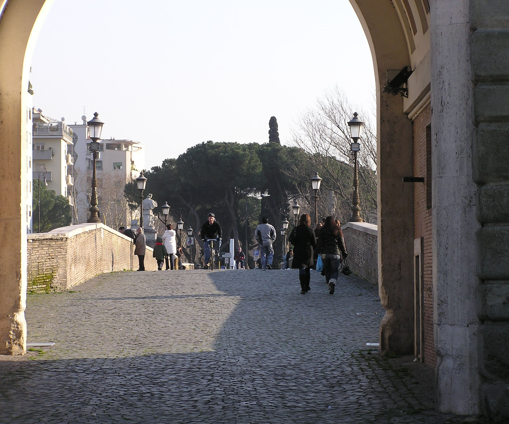 The Milvian Bridge, Rome